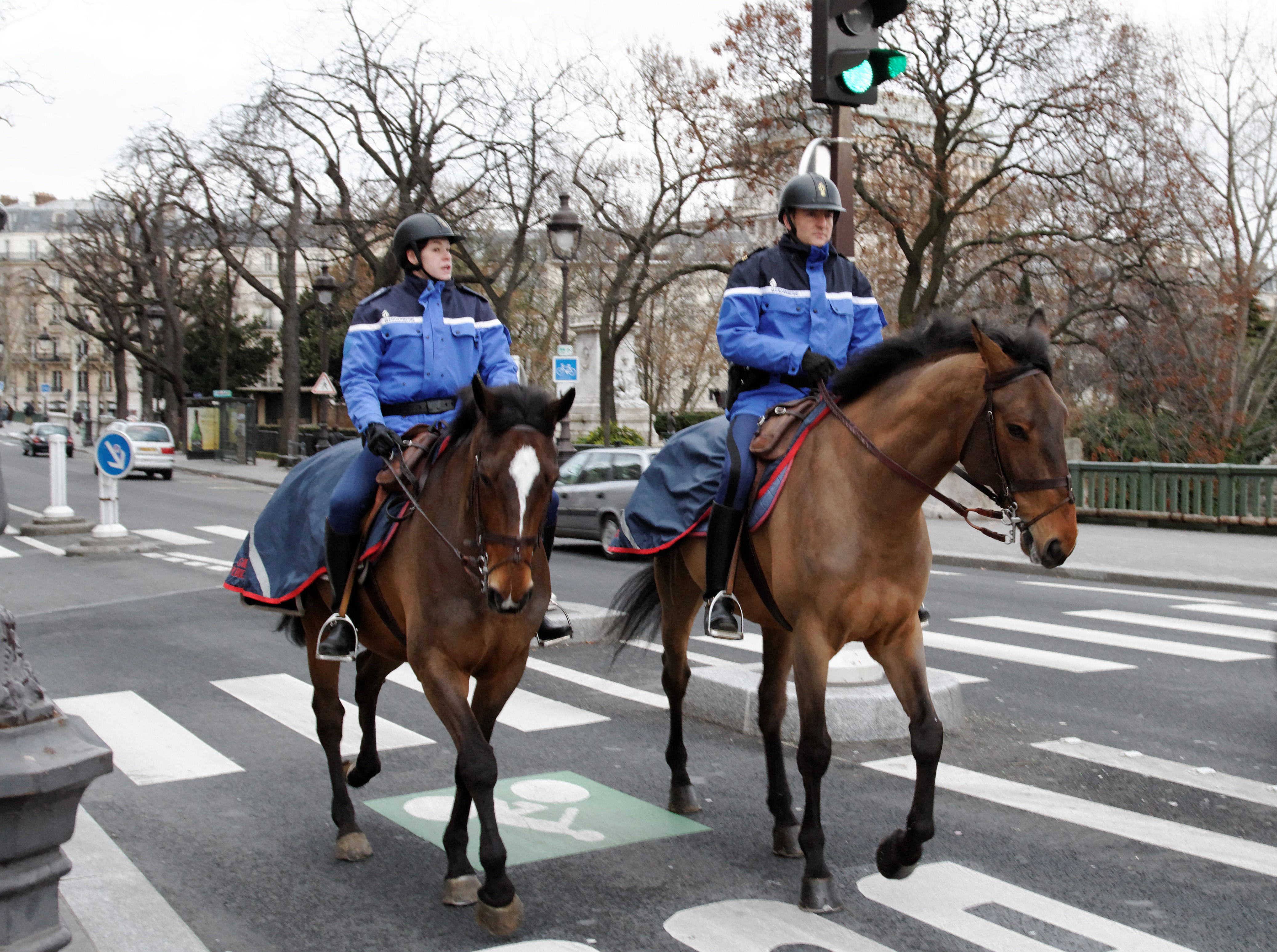 Notre-Dame et Quais